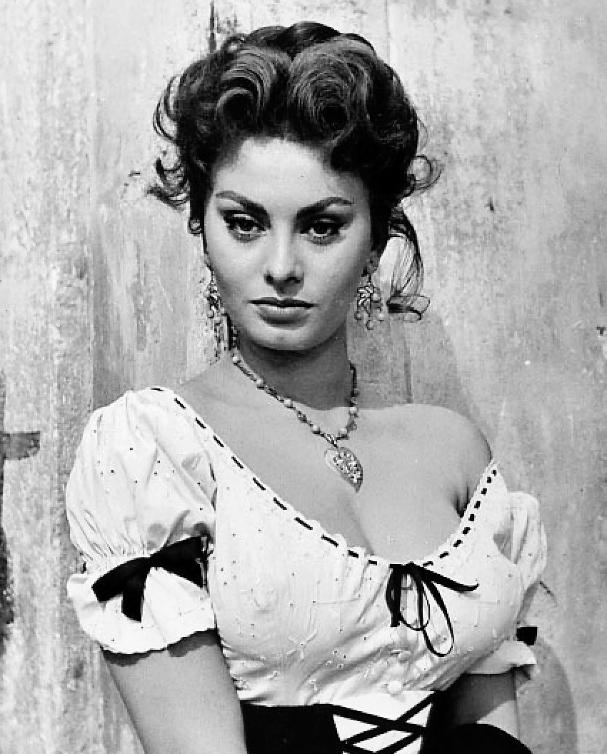 Publicity photo of Sophia Loren